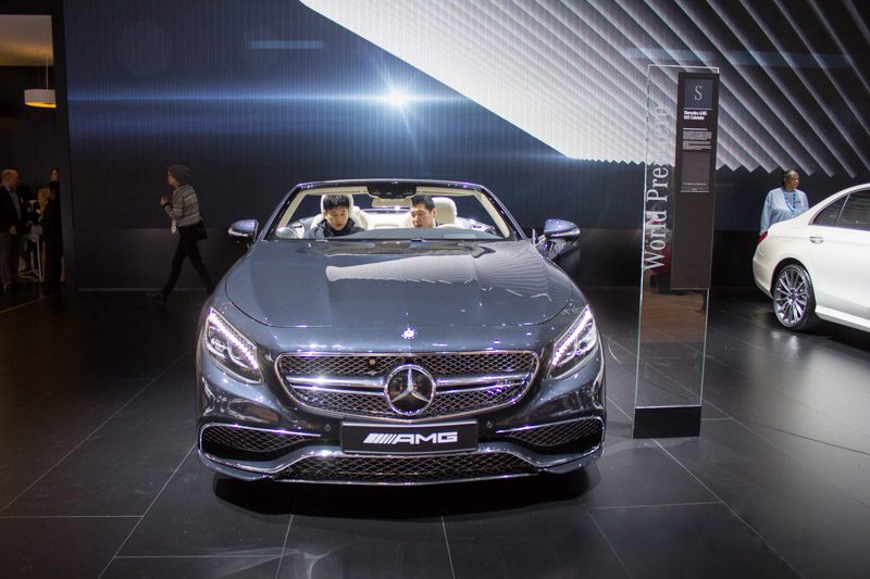 Mercedes-AMG S65 Cabriolet (W222) at North-American (Detroit) Auto Show, january 2016